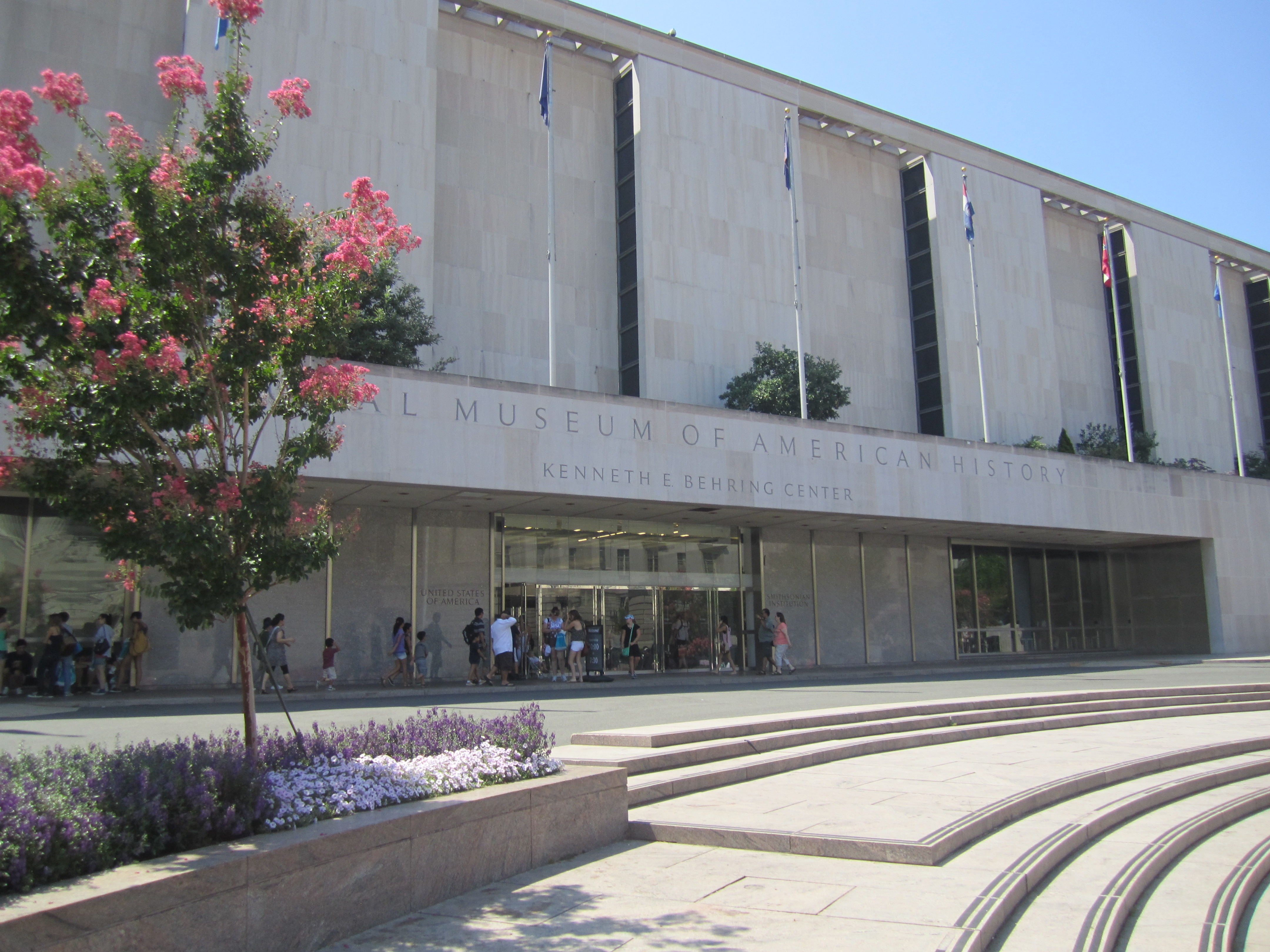 I took photo of National Museum of American History outside scene in Washington, D.C., using Canon camera.